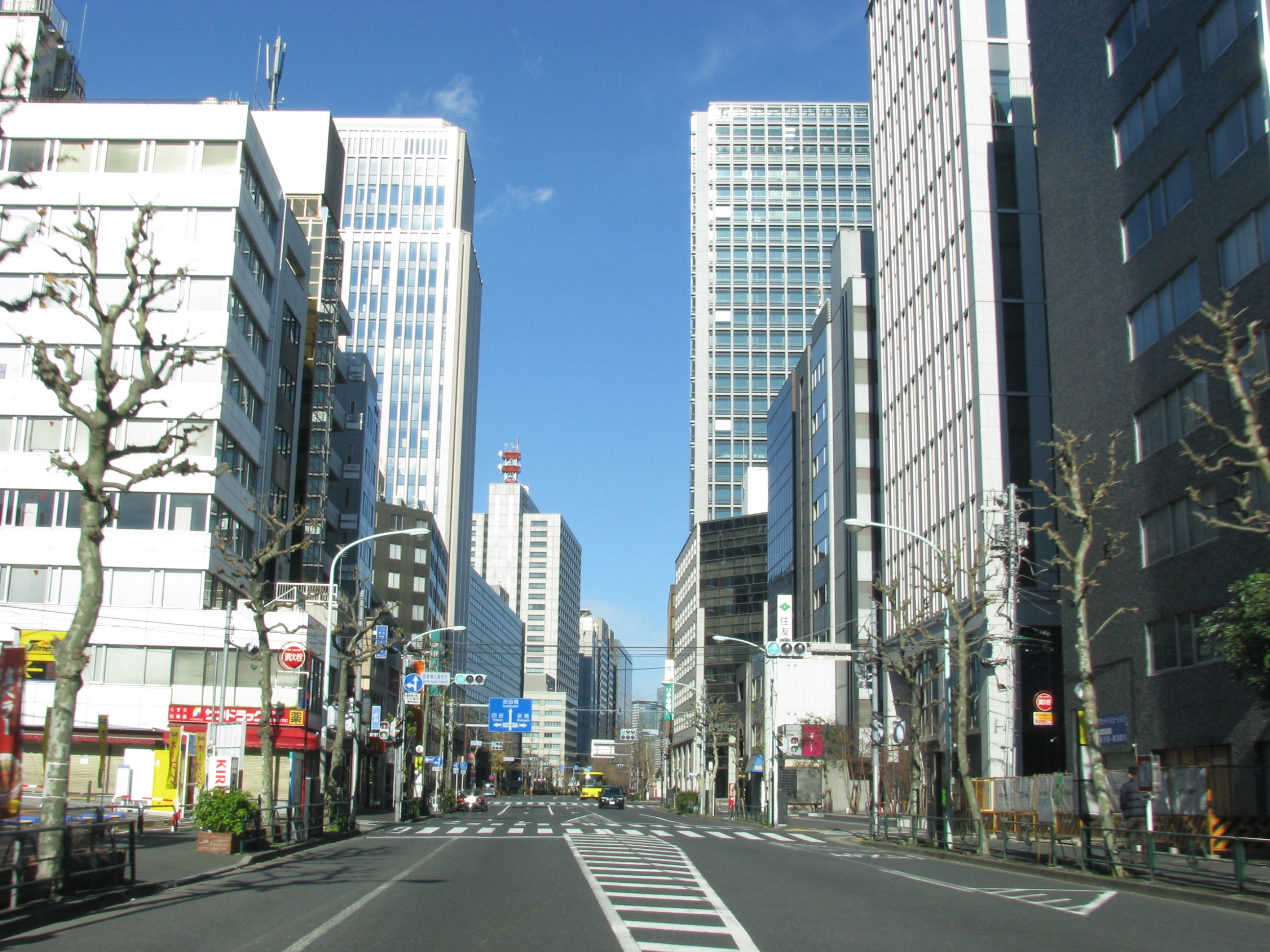 The Tokyo Prefectural Route 301. This place is Toranomon in Minato, Tokyo, Japan.